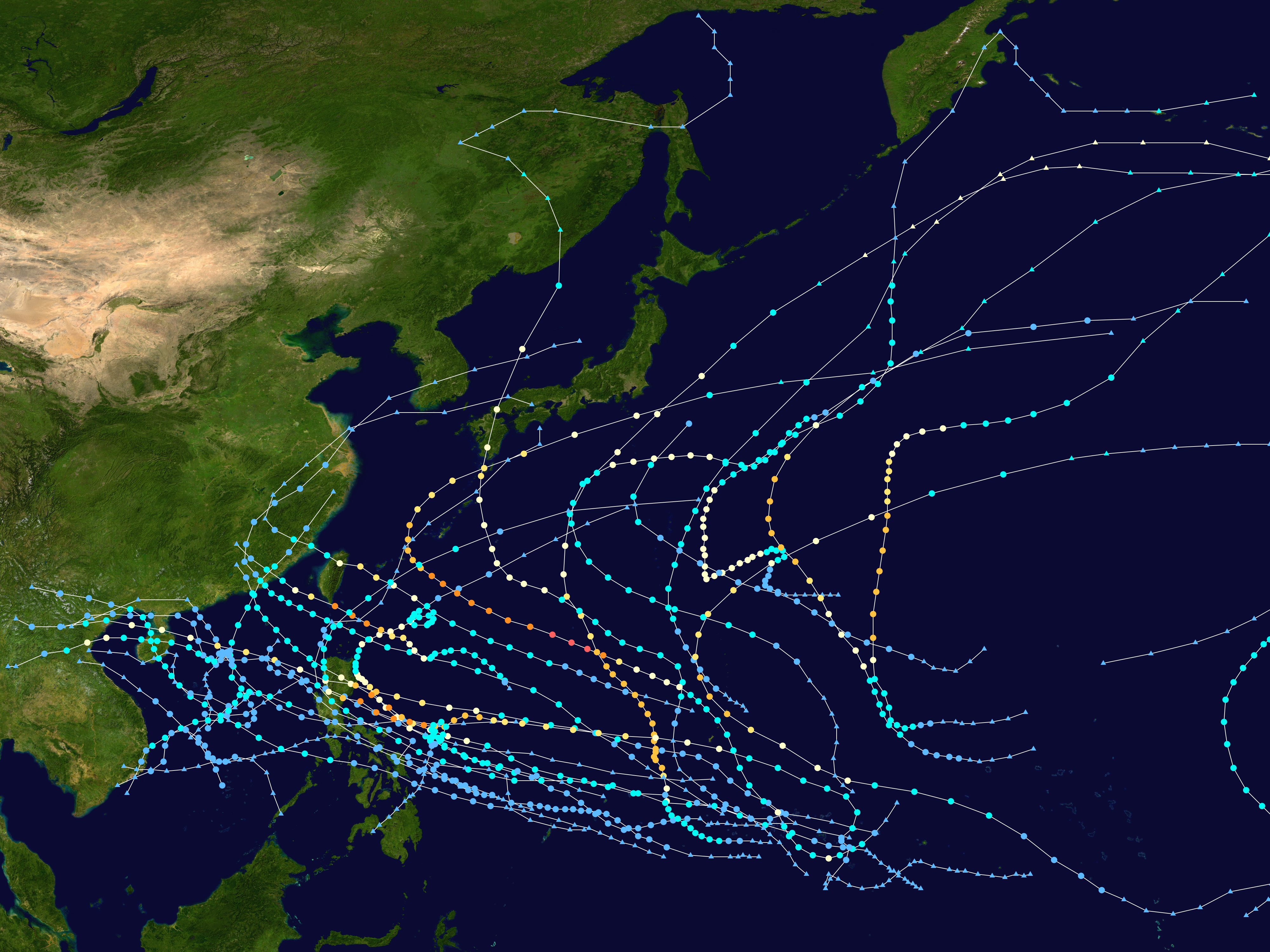 This map shows the tracks of all tropical cyclones in the 1980 Pacific typhoon season. The points show the location of each storm at 6-hour intervals. The colour represents the storm's maximum sustained wind speeds as classified in the Saffir-Simpson Hurricane Scale (see below), and the shape of the data points represent the type of the storm. Saffir–Simpson scale Tropical depression≤38 mph≤62 km/h Category 3111–129 mph178–208 km/h Tropical storm39–73 mph63–118 km/h Category 4130–156 mph209–251 km/h Category 174–95 mph119–153 km/h Category 5≥157 mph≥252 km/h Category 296–110 mph154–177 km/h Unknown Storm type Tropical cyclone Subtropical cyclone Extratropical cyclone / Remnant low / Tropical disturbance / Monsoon depression